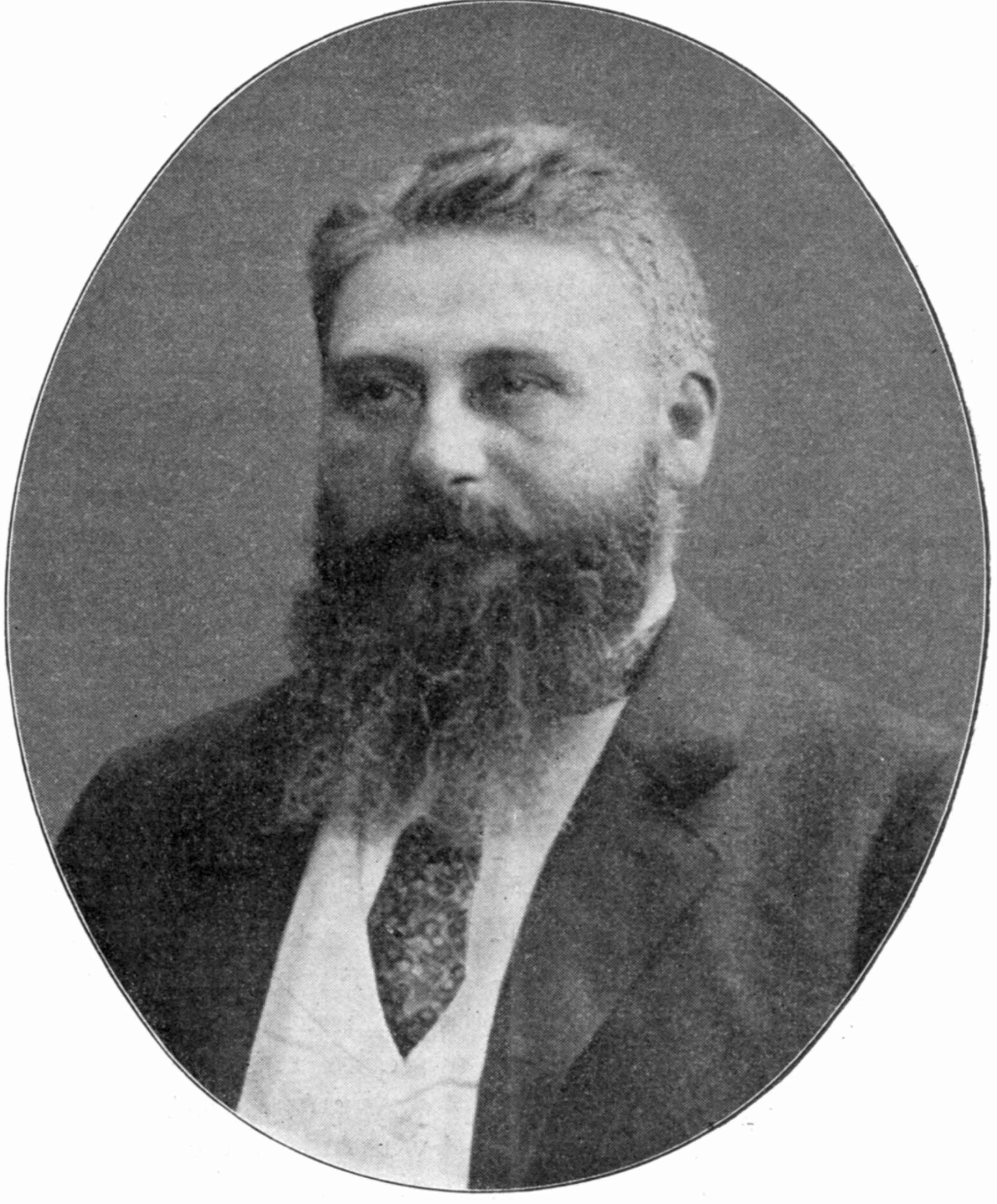 Portrait published in Staub's obituary in 1904.